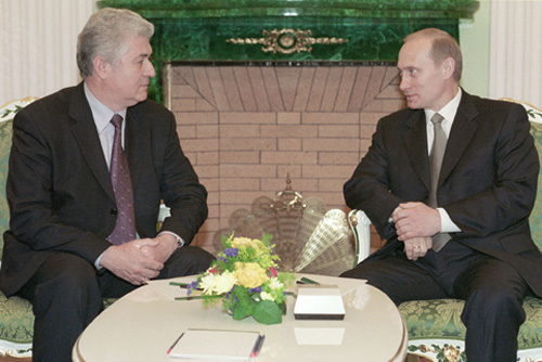 THE GRAND KREMLIN PALACE, MOSCOW. President Putin with President Vladimir Voronin of Moldova.